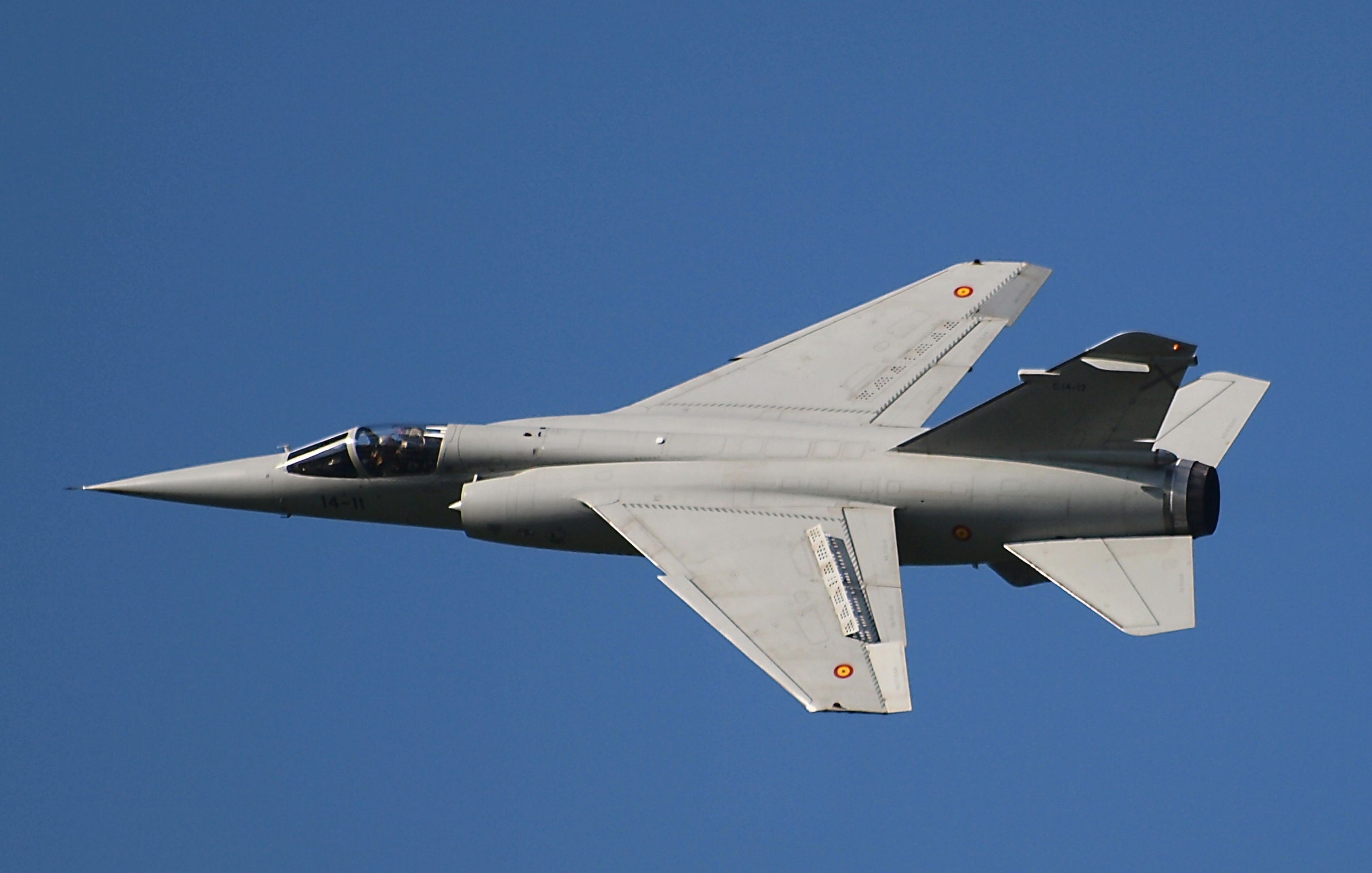 Ejercito del Aire Mirage (Spanish Air Force) F.1M '14-11' at Kecskeméti Repülőnap 2010, flown by Vicente Polo Miquel.